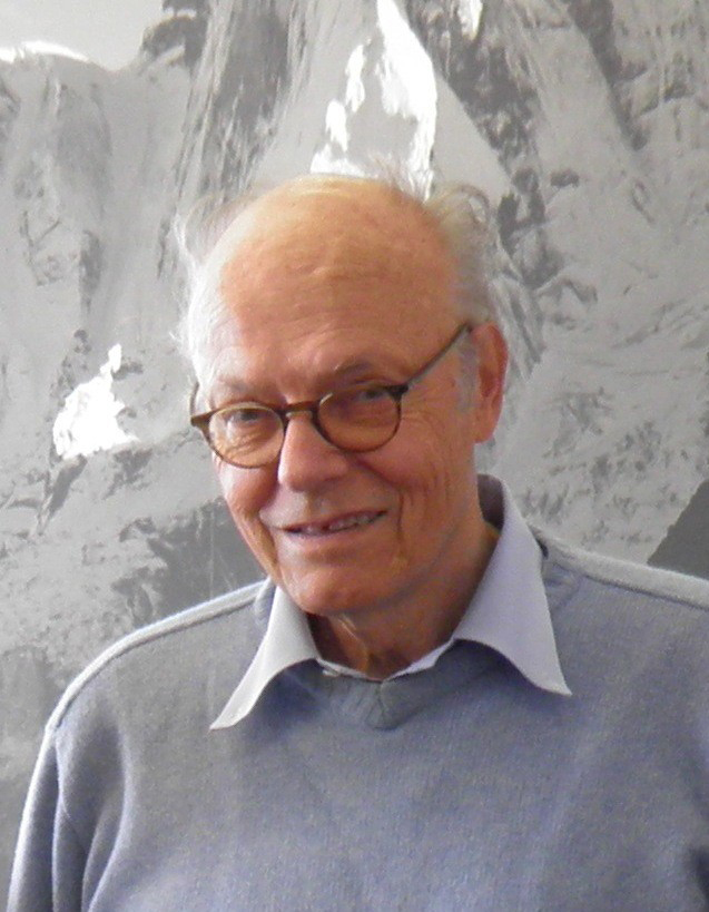 Professor Max Burger